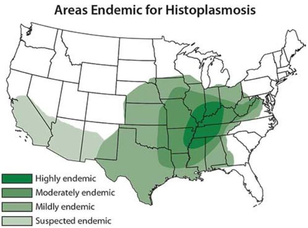 Map showing areas endemic for histoplasmosis in the US